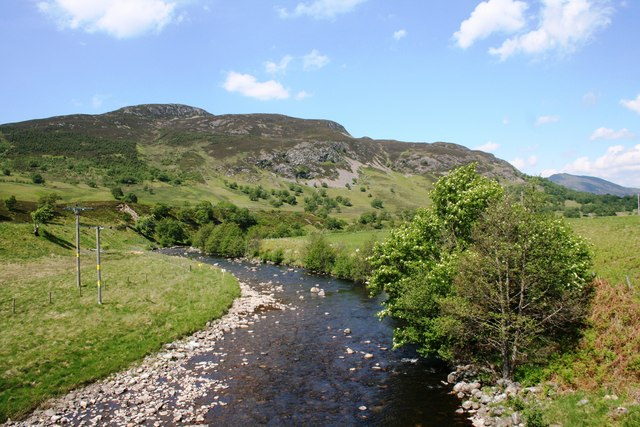 River Truim The Truim on the north side of the new Crubenmore Bridge.